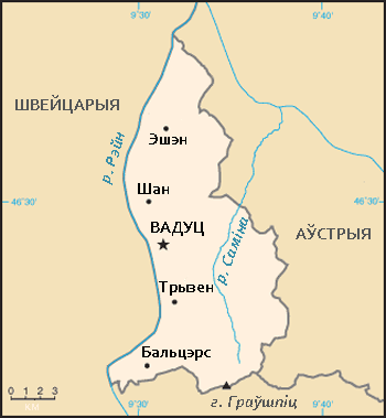 Map of Liechtenstein in Belarusian